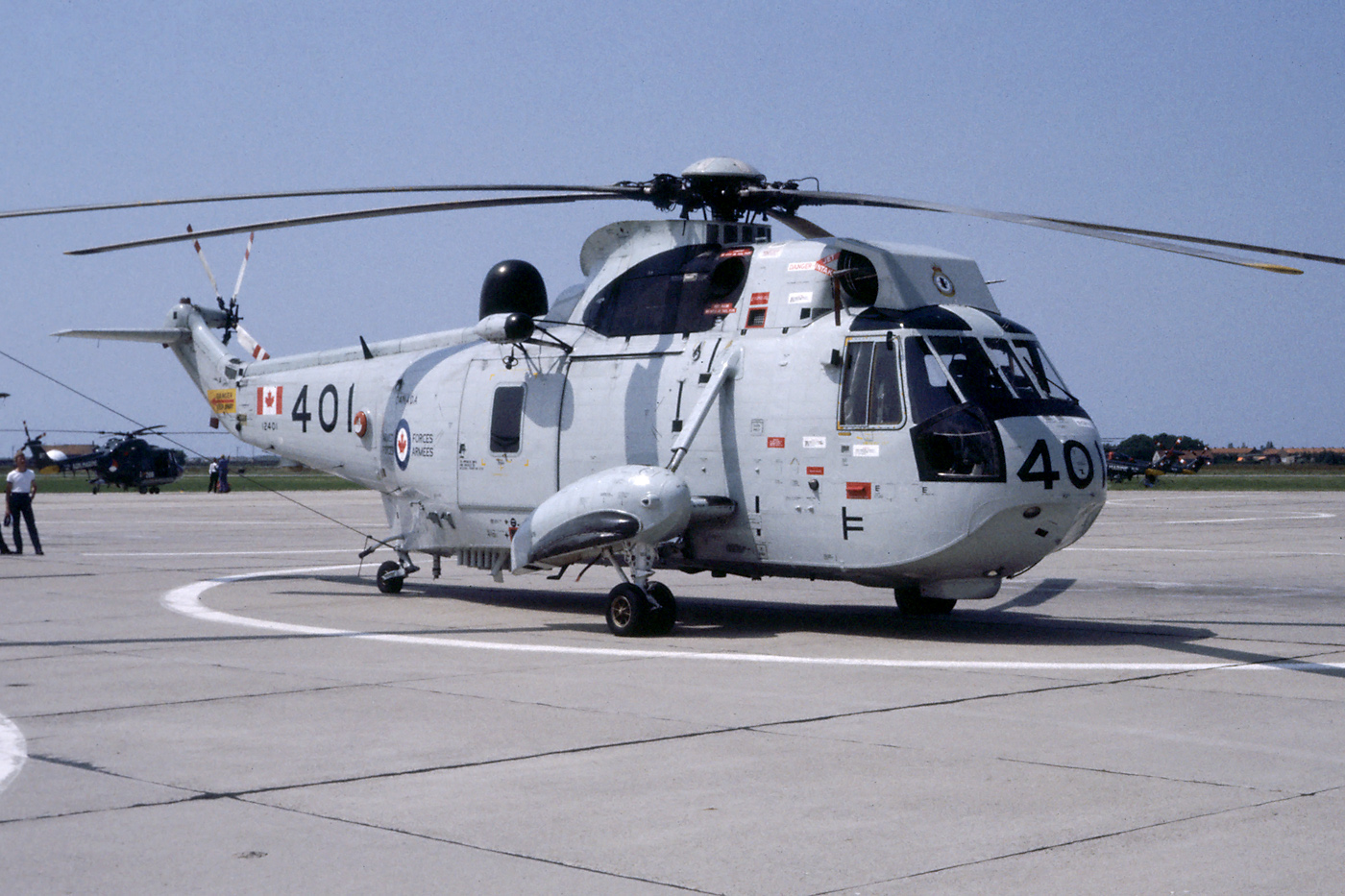 A Canadian Sea King in nice old grey and with colourful roundels on the platform of De Kooy. June1983. Photo taken by my dad, who was air traffic controller here. 12401 was written off in February 2003 after an accident on board HMCS Iroquois.